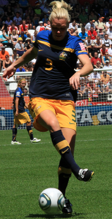 Kim Carroll playing for Australia in the 2011 FIFA Women's World Cup